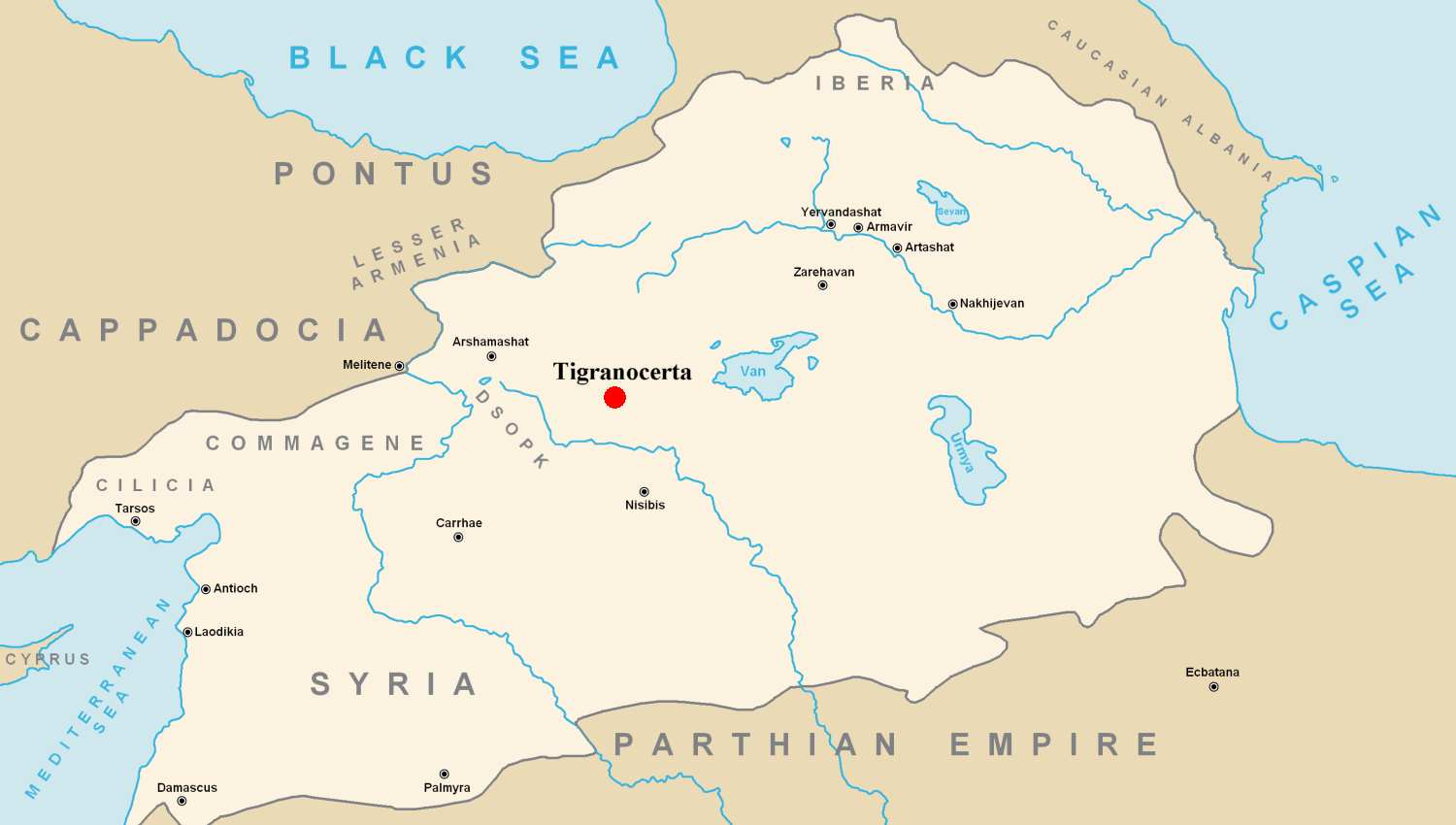 Tigranocerta